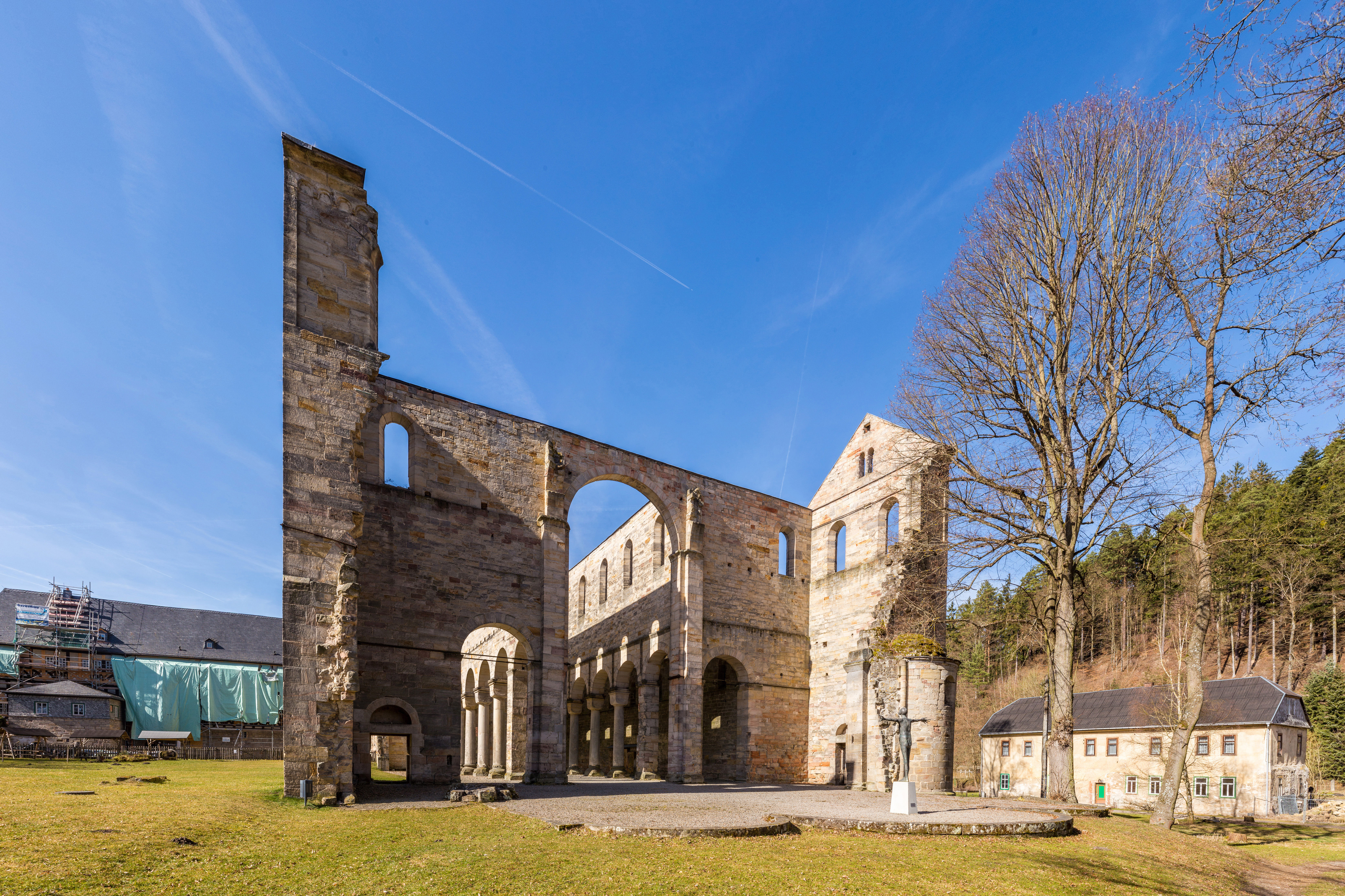 Ruin of the abbey church of Paulinzella abbey in Thuringia, Germany. View from east. The church was built from 1106 on, today there are only ruins left. It's one of the most important romanesque buildings in Germany.